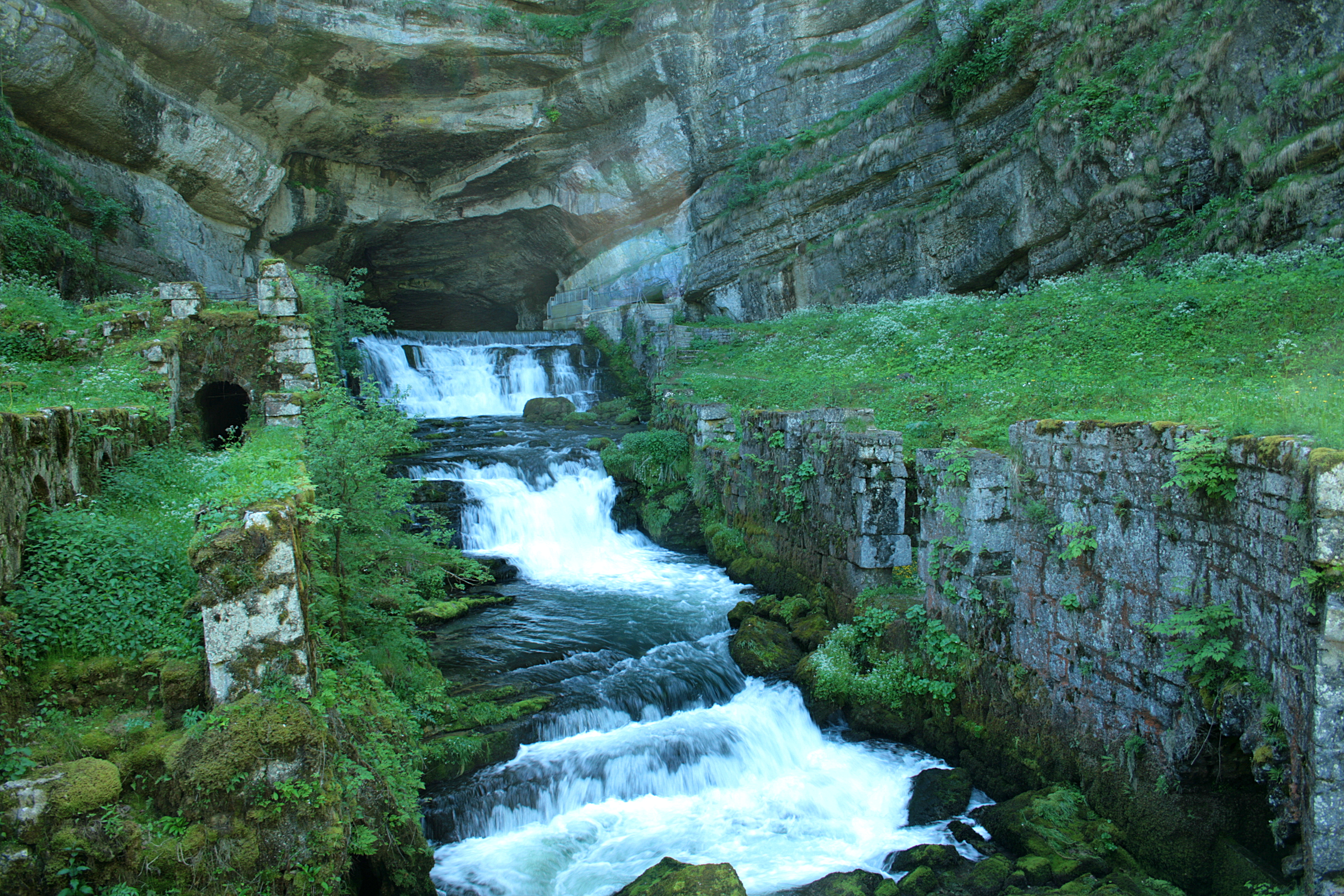 Ouhans (Doubs - France), source of the Loue (river).